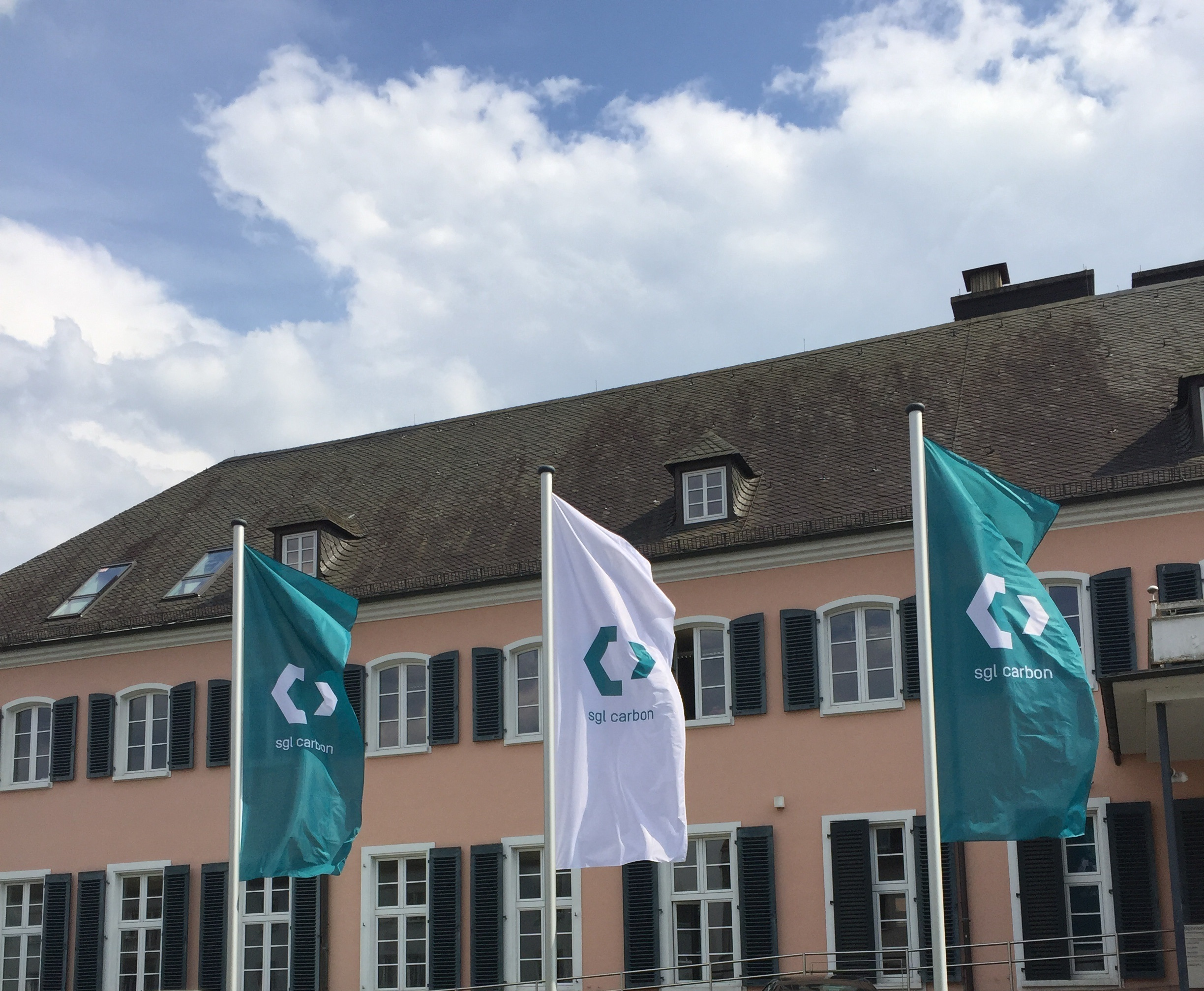 SGL Carbon SE Headquarters in Wiesbaden